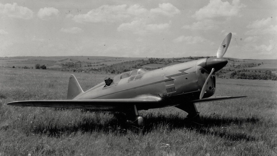 Zlín Z-XIII with applied two seat cockpit.